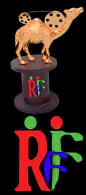 this is logo and trophy of rajasthan film festival